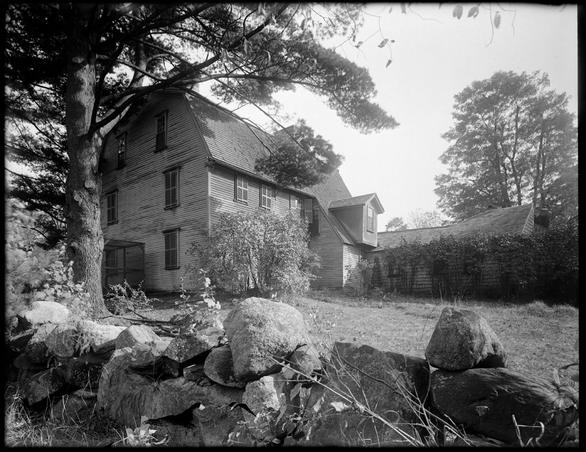 File name: 08_01_000208 Title: Side view of Old Manse near stone wall, Concord, Mass. Creator/Contributor: Abdalian, Leon H., 1884-1967 (photographer) Date created: 1930-10-13 Physical description: 1 negative : glass, black & white ; 6.5 x 8.5 in. Genre: Glass negatives Notes: Abdalian identifier no. 1182 Location: Boston Public Library, Print Department Rights: No known restrictions